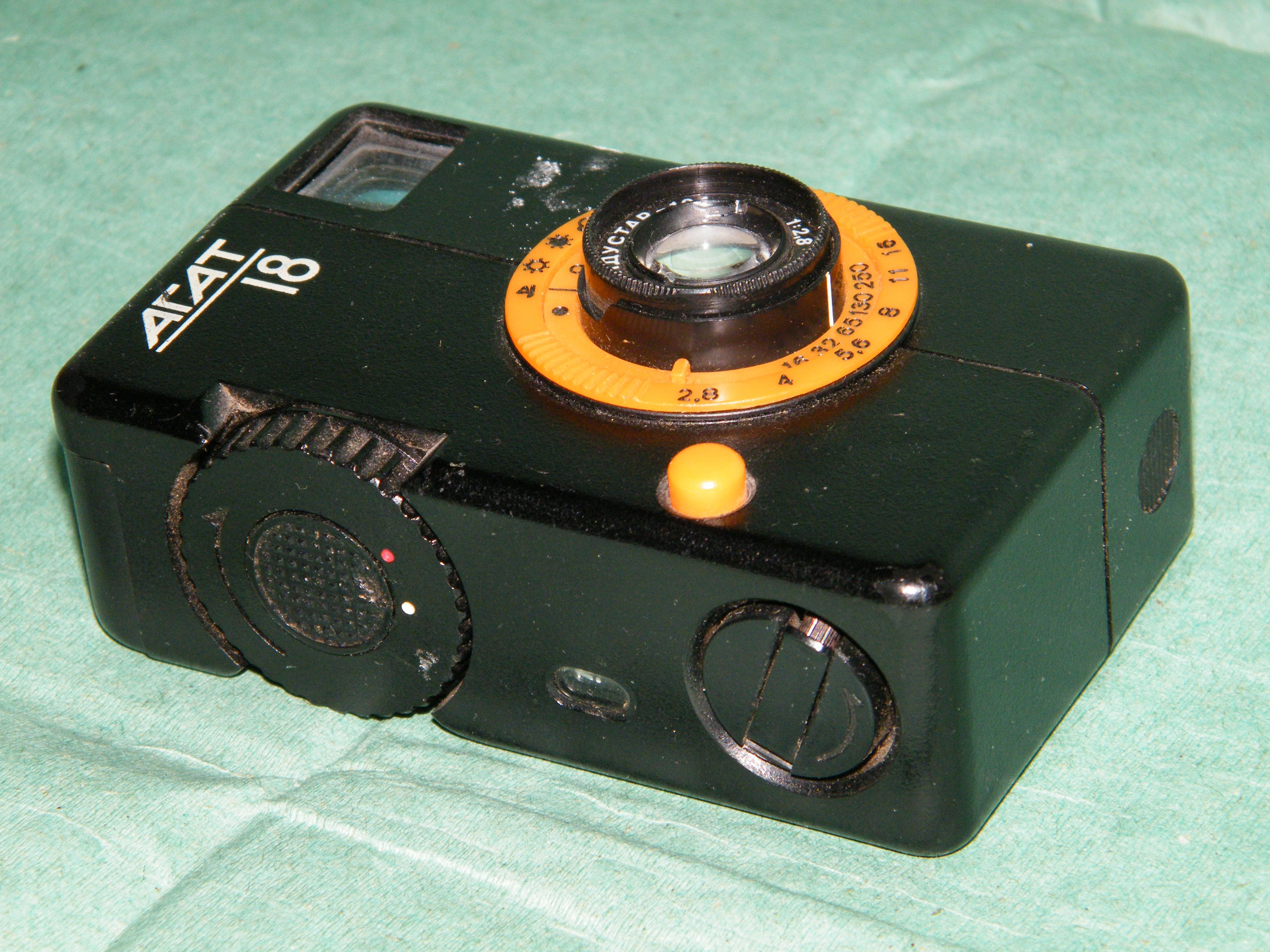 AGAT-18 from Mikhail Nayanov collection